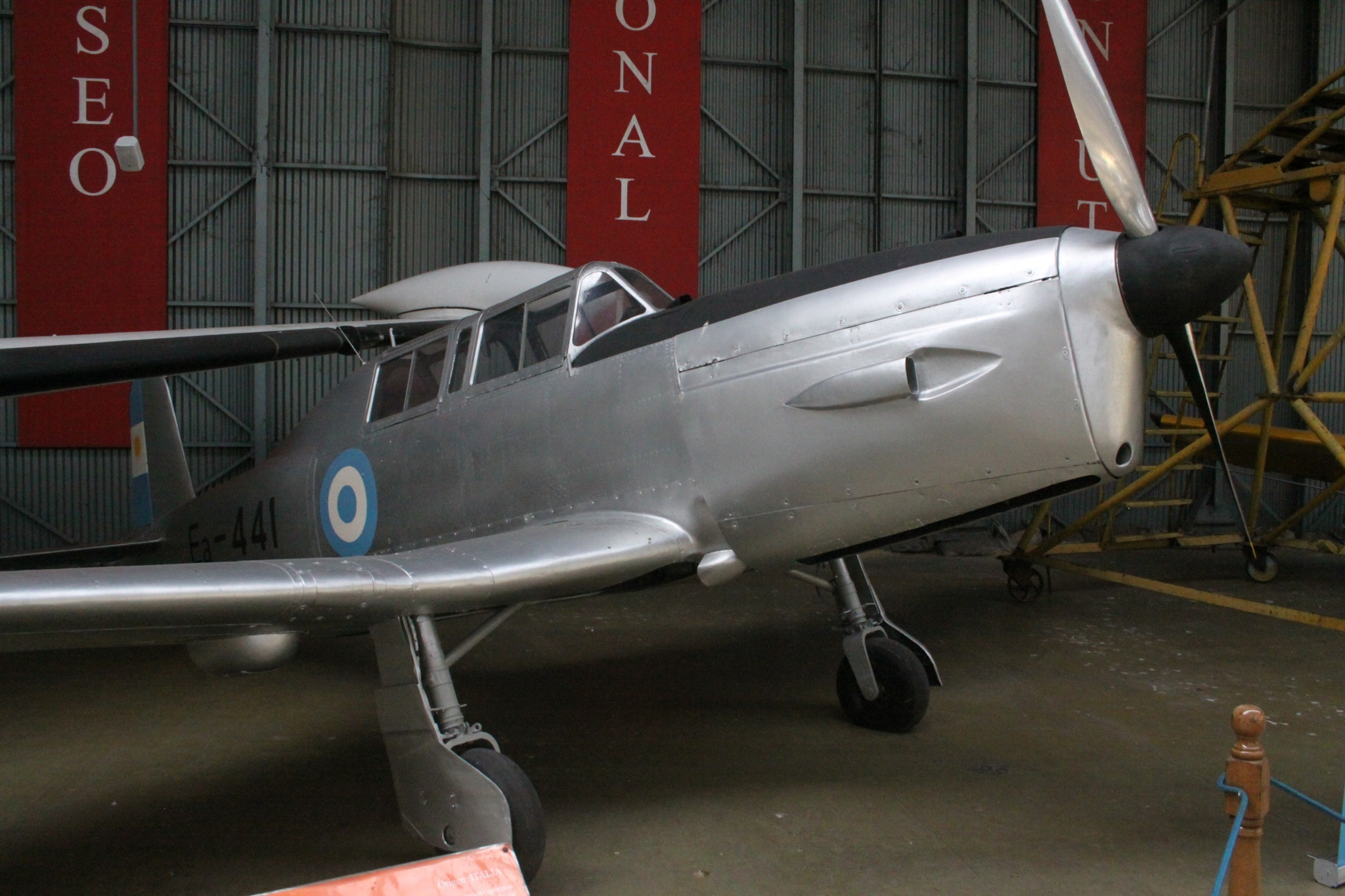 At Moron Museo Nactional De Aeronautica